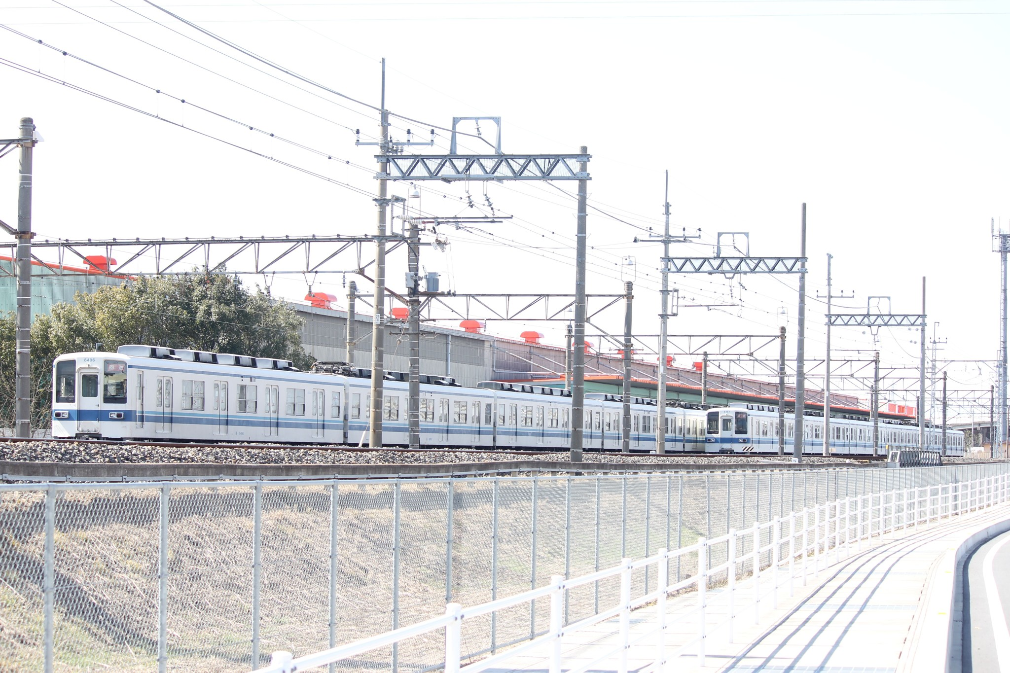 Tobu Railway 8000 series EMU sets 8106 and 8167 at Kita-Tatebayashi in Gunma Prefecture awaiting scrapping